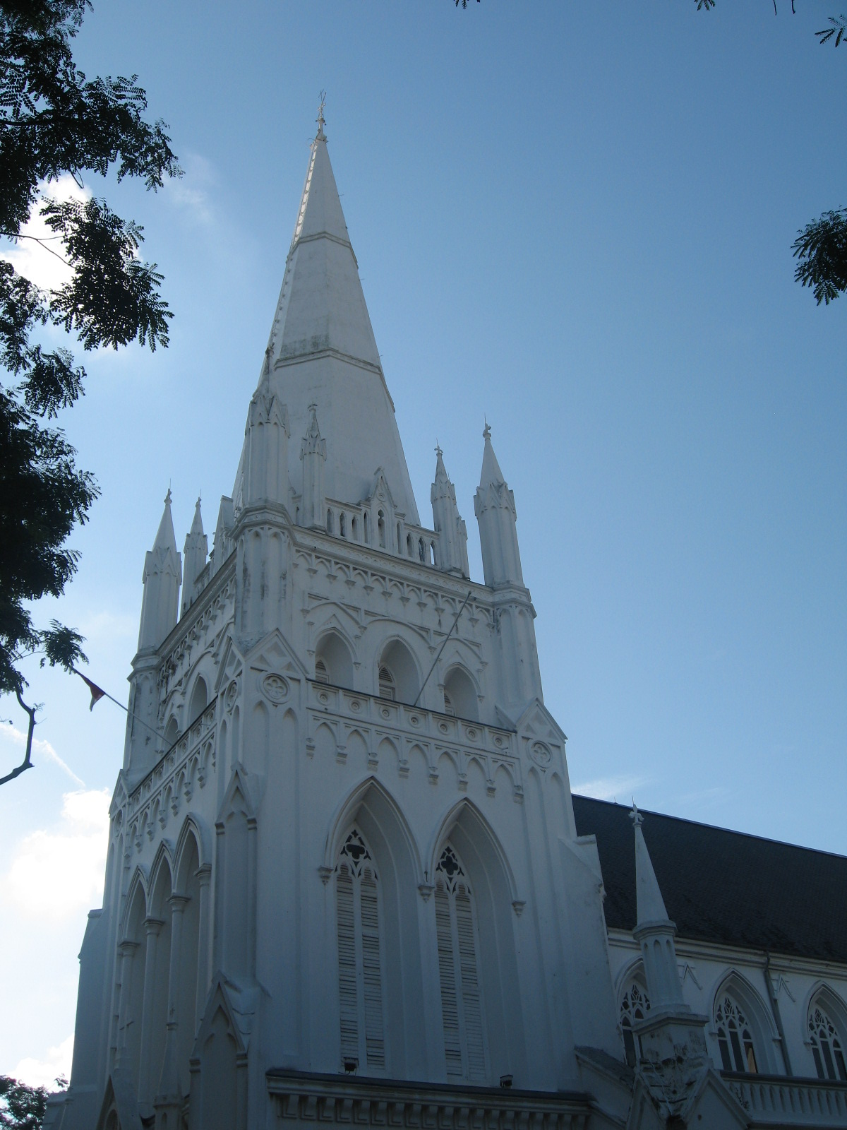 Saint Andrew's Cathedral, Singapore.